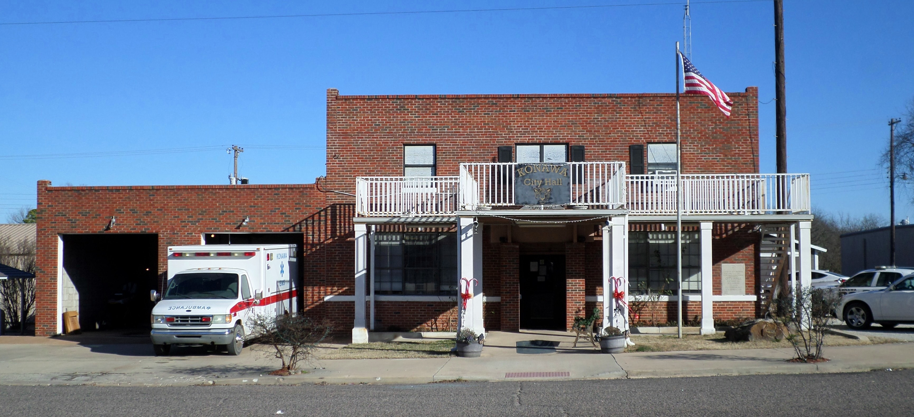 Konawa City Hall, located at 122 N. Broadway St., Konawa, Oklahoma.